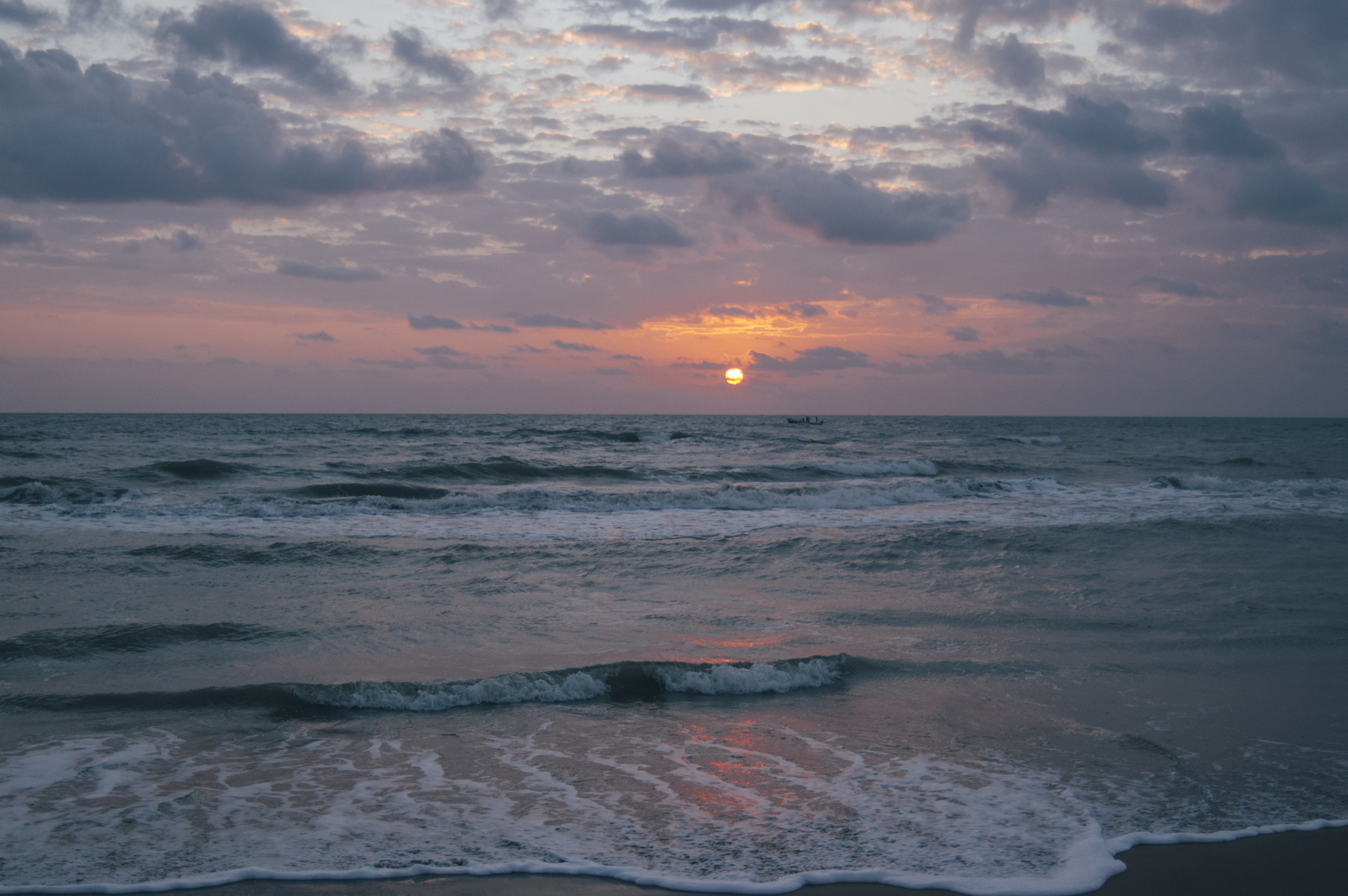 Bay of Bengal Sunrise at Nagapattinam Beach